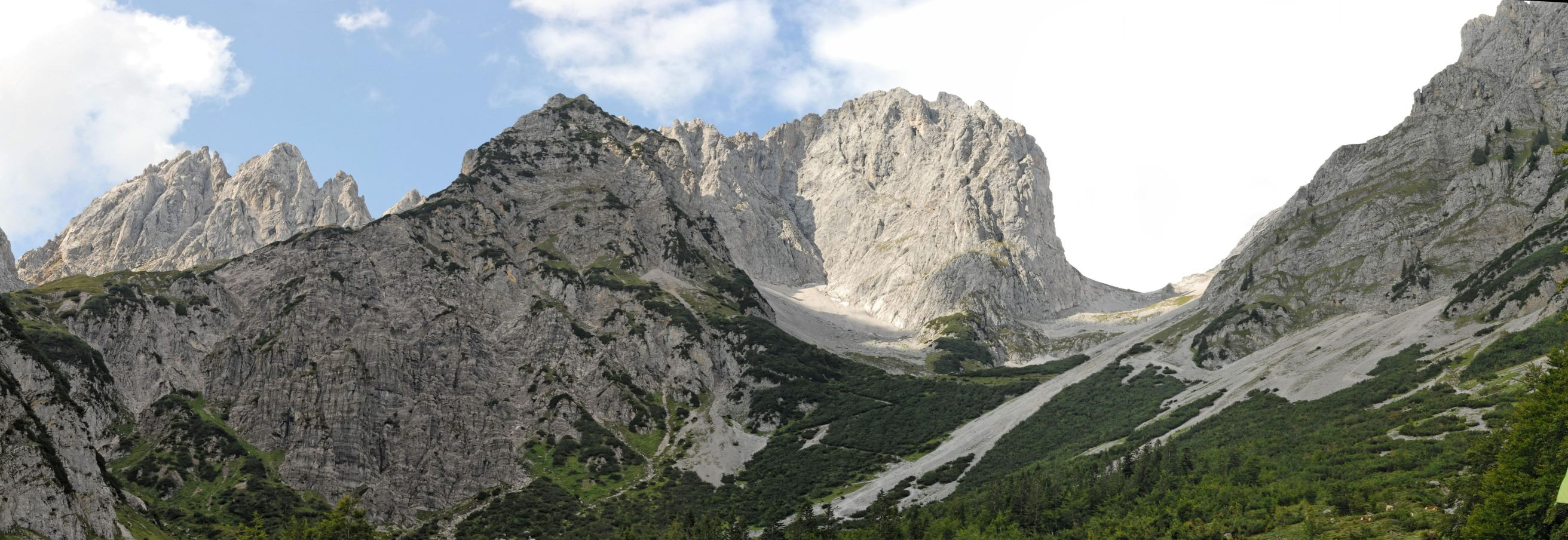 Pamorama Wilder Kaiser: Left Side: Ellmauer Halt, Right Side: Kübelkar und Goinger Halt, Center: Vordere Karlspitze (from South)